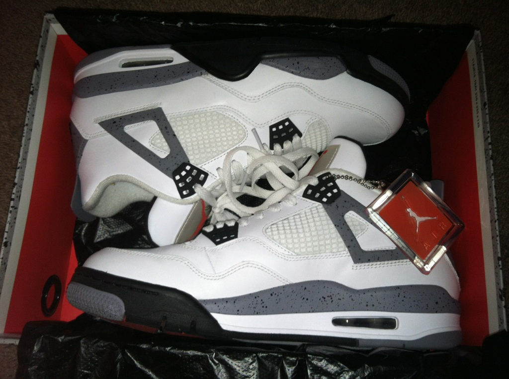 The 2012 Retro of the Air Jordan 4